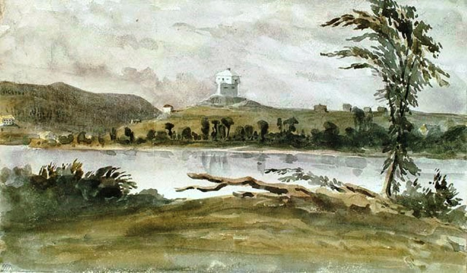 Block House, Junction of Madawaska and St. John's Rivers, watercolour over pencil on wove paper, 23.800 x 13.800 cm